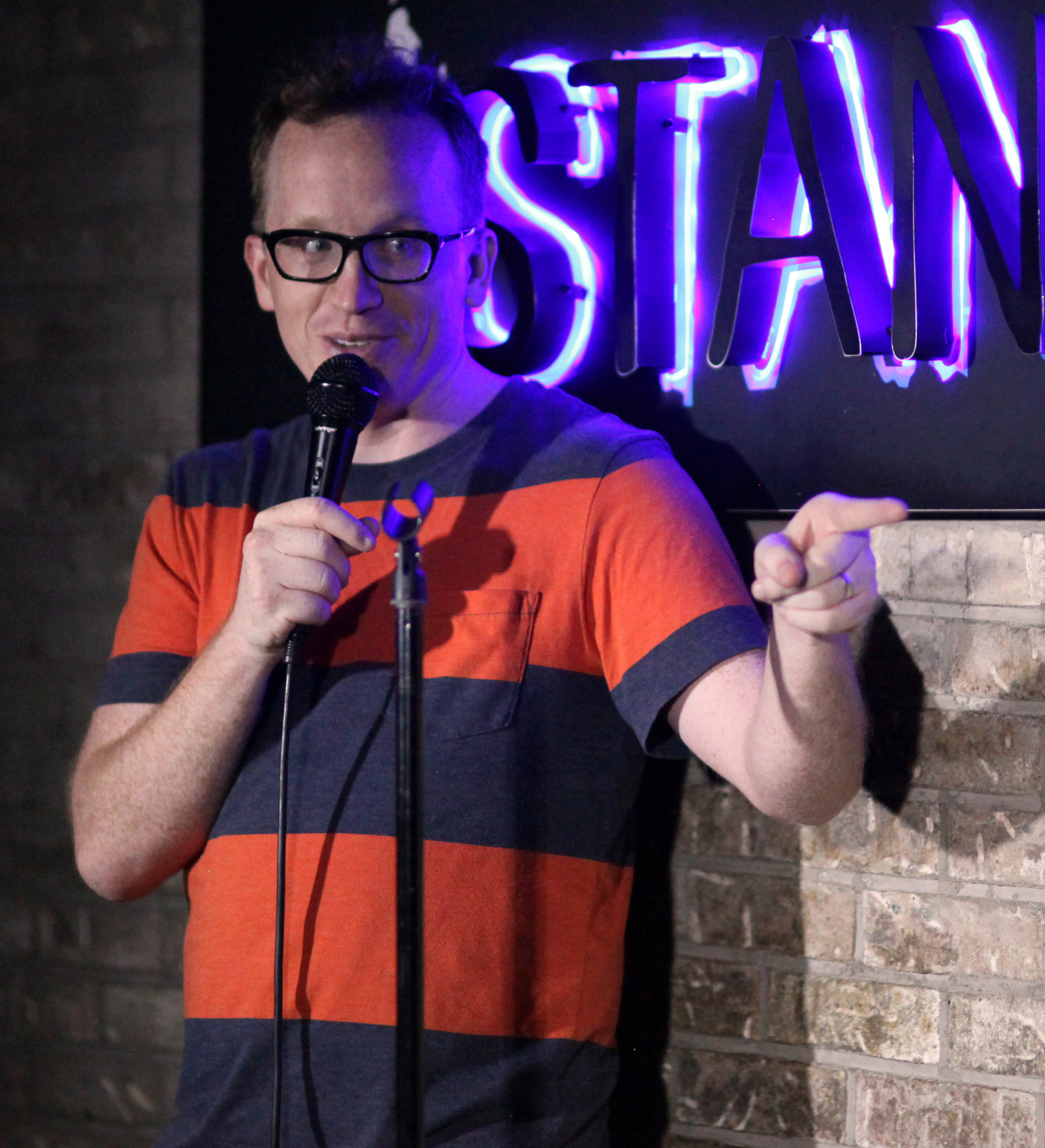 Chris Gethard performing in New York City, July 2016.